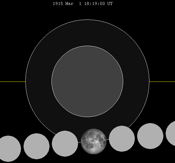 =lunar eclipse chart of moon's path through the earth's shadow. thumb